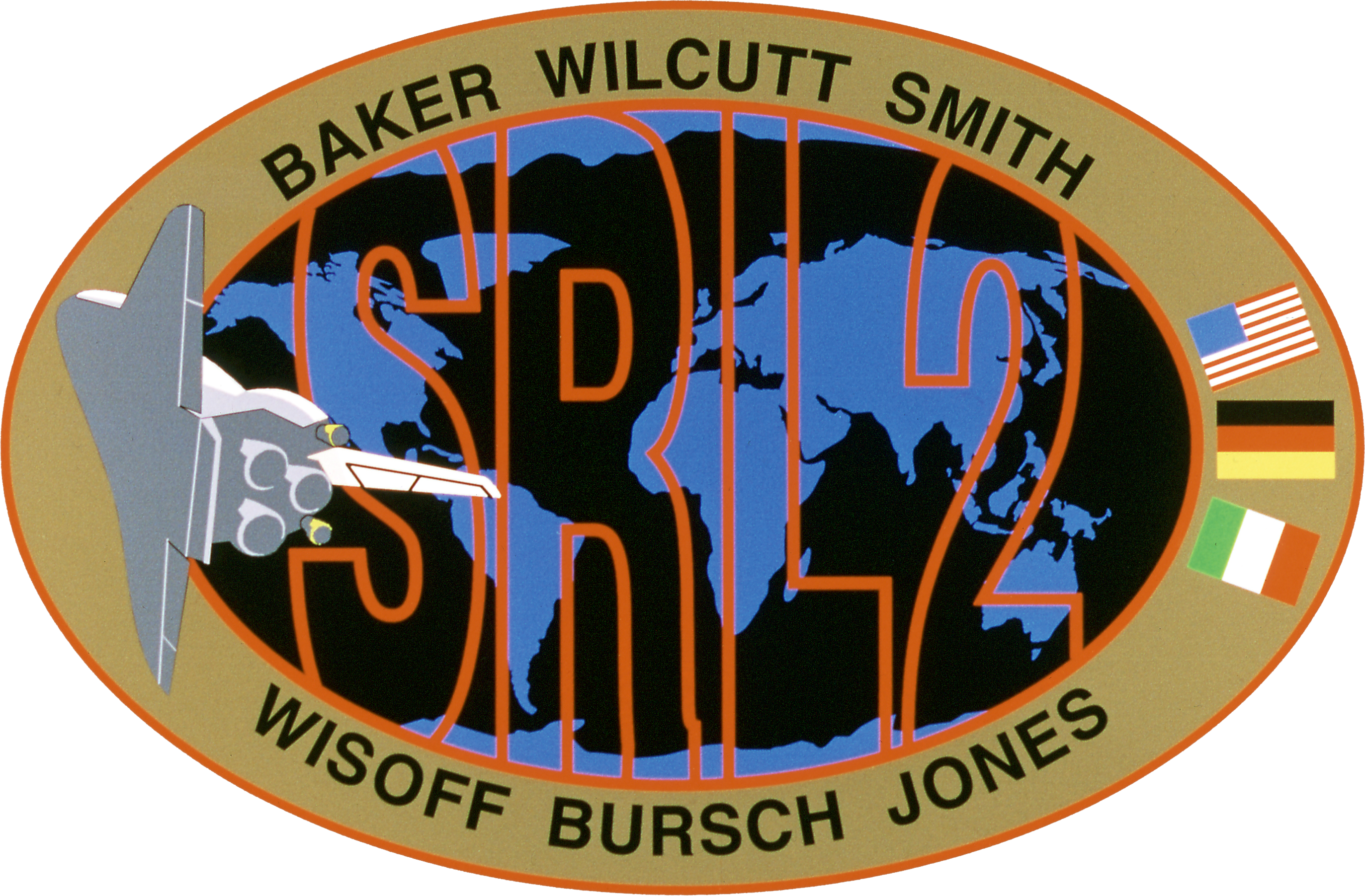 STS-68 Mission Insignia This STS-68 patch was designed by artist Sean Collins. Exploration of Earth from space is the focus of the design of the insignia, the second flight of the Space Radar Laboratory (SRL-2). SRL-2 was part of NASA's Mission to Planet Earth (MTPE) project. The world's land masses and oceans dominate the center field, with the Space Shuttle Endeavour circling the globe. The SRL-2 letters span the width and breadth of planet Earth, symbolizing worldwide coverage of the two prime experiments of STS-68: The Shuttle Imaging Radar-C and X-Band Synthetic Aperture Radar (SIR-C/X-SAR) instruments; and the Measurement of Air Pollution from Satellites (MAPS) sensor. The red, blue, and black colors of the insignia represent the three operating wavelengths of SIR-C/X-SAR, and the gold band surrounding the globe symbolizes the atmospheric envelope examined by MAPS. The flags of international partners Germany and Italy are shown opposite Endeavour. The relationship of the Orbiter to Earth highlights the usefulness of human space flights in understanding Earth's environment, and the monitoring of its changing surface and atmosphere. In the words of the crew members, the soaring Orbiter also typifies the excellence of the NASA team in exploring our own world, using the tools which the Space Program developed to explore the other planets in the solar system.